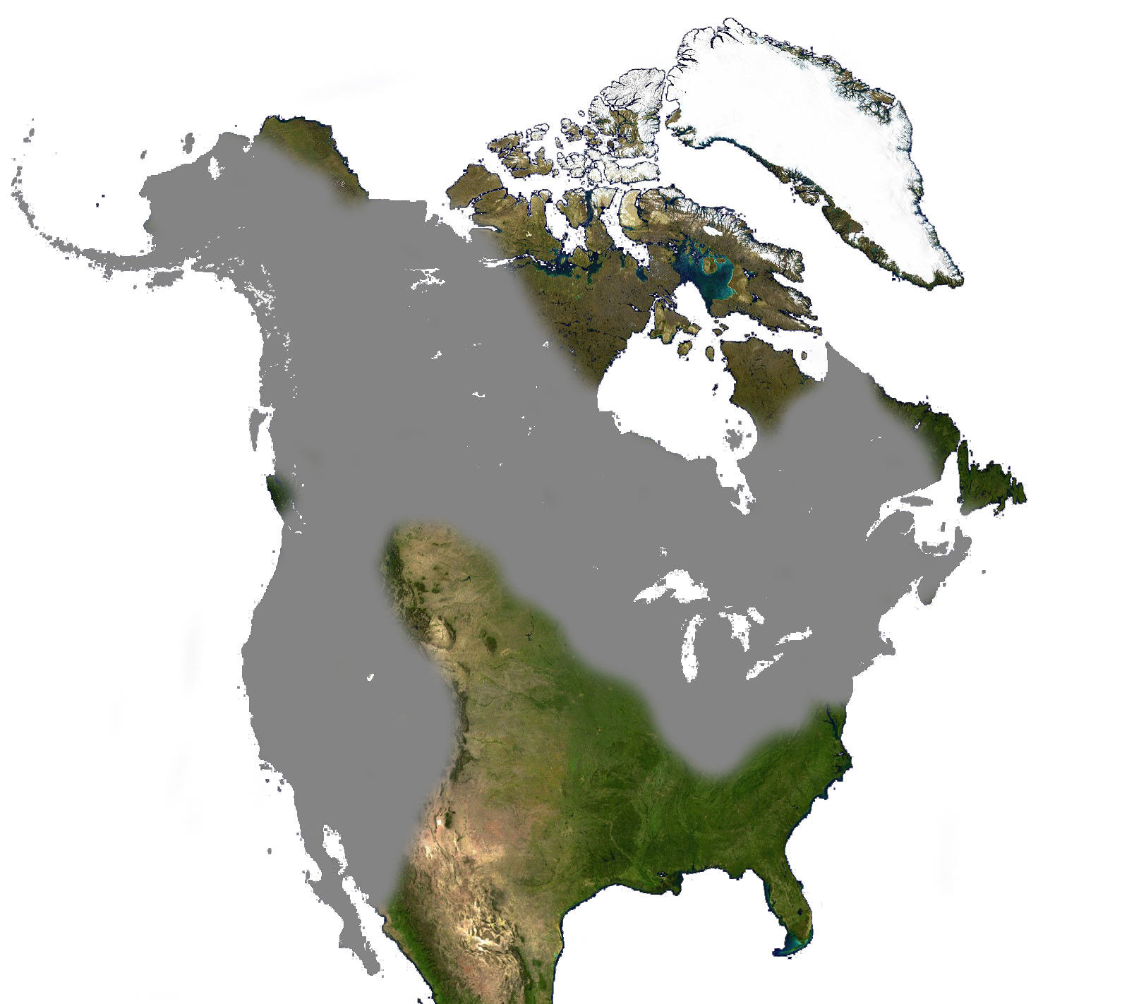 This map shows the range of Erethizon dorsatum (Porcupine) across North America.